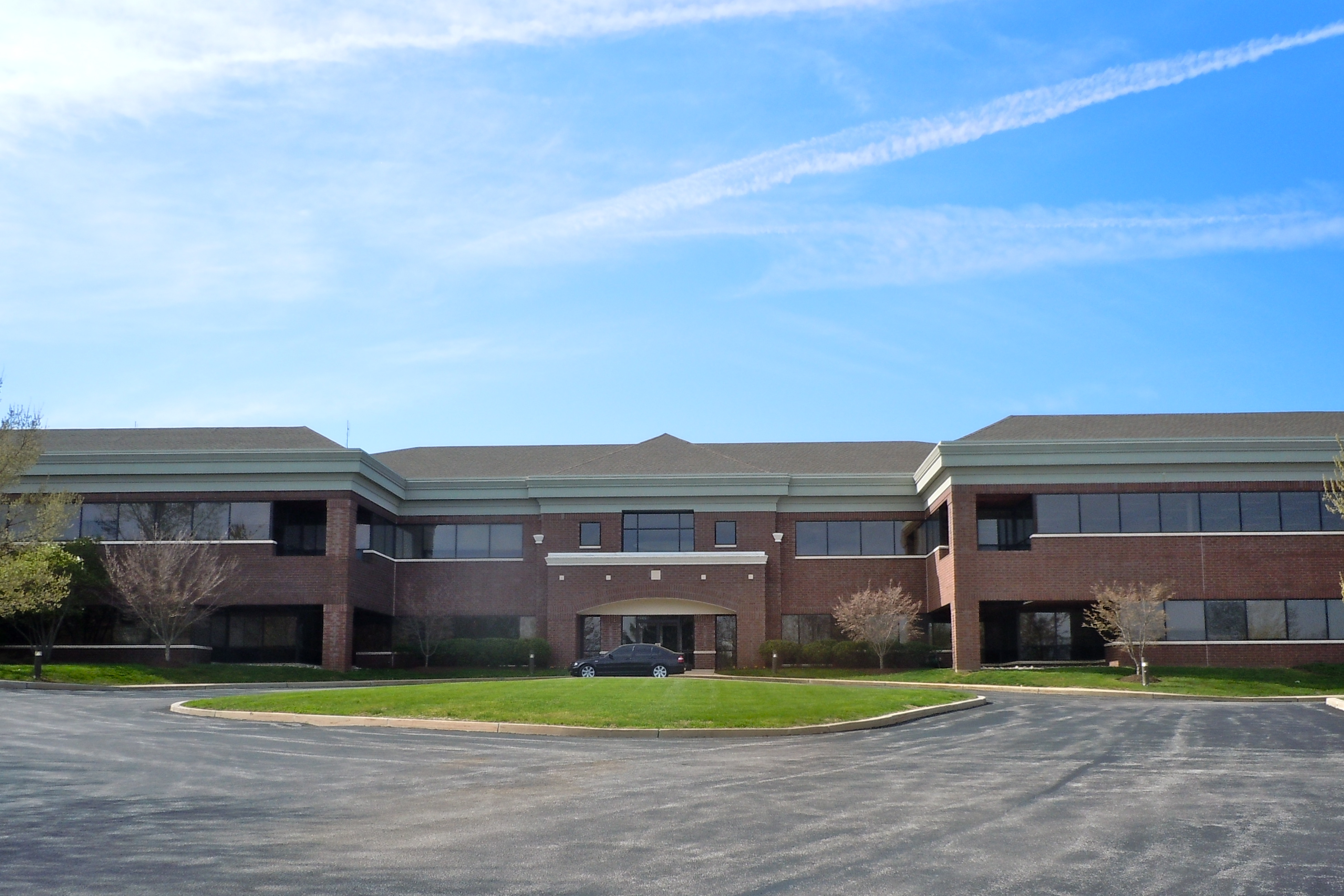 The headquarters building of Apple Vacations in Newtown Township, Delaware County, Pennsylvania on bishop Hollow Road. Note that they share the building in an office park, with among other tenants the FBI.